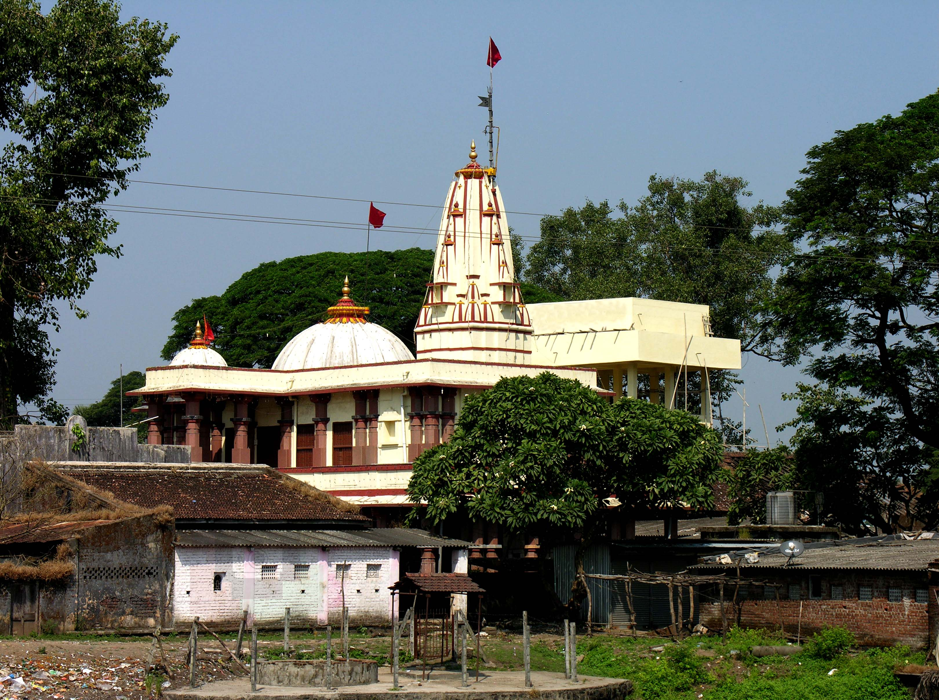 Temple Of Mahalaxmi , Situated At Dahanu. Also Kuldevi of the Many Tribals Of Dahanu